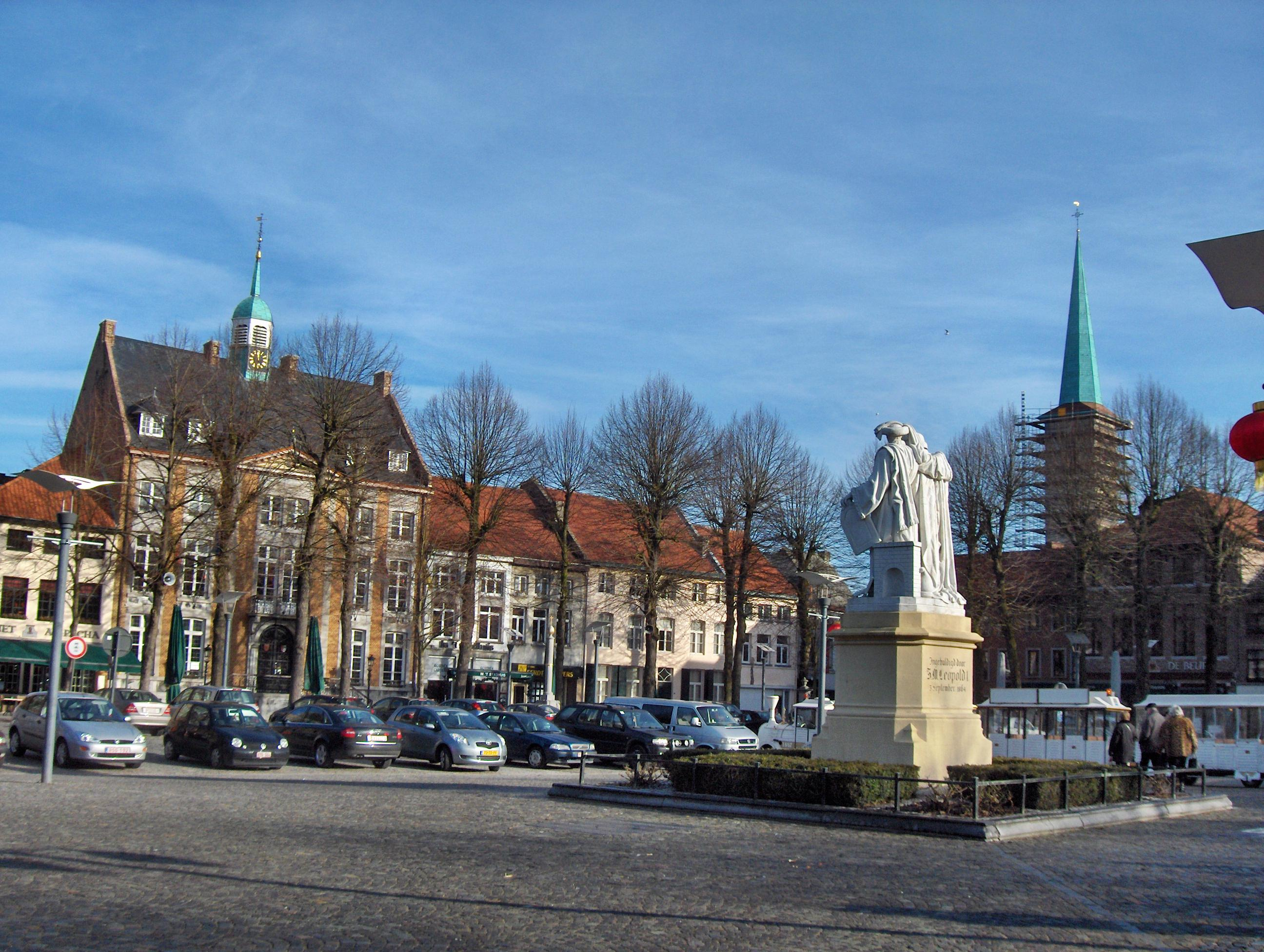 Maaseik : main square with the statue of Jan and Hubert Van Eyck, the town hall (on the left) and the tower of the church of St. Catherine